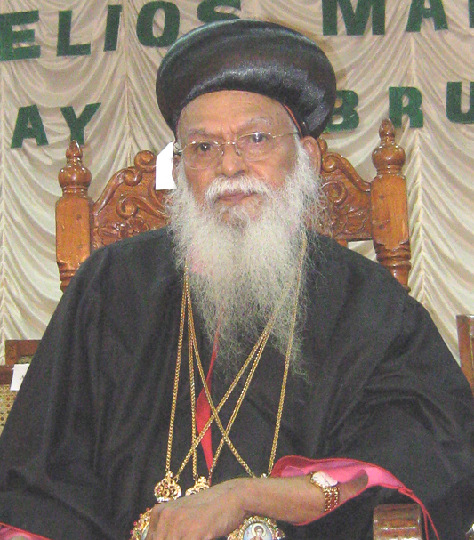 Patriarch His Holiness Moran Mar Baselios Marthoma Didymus I , former Orthodox Catholicos of the East (2005–2010)